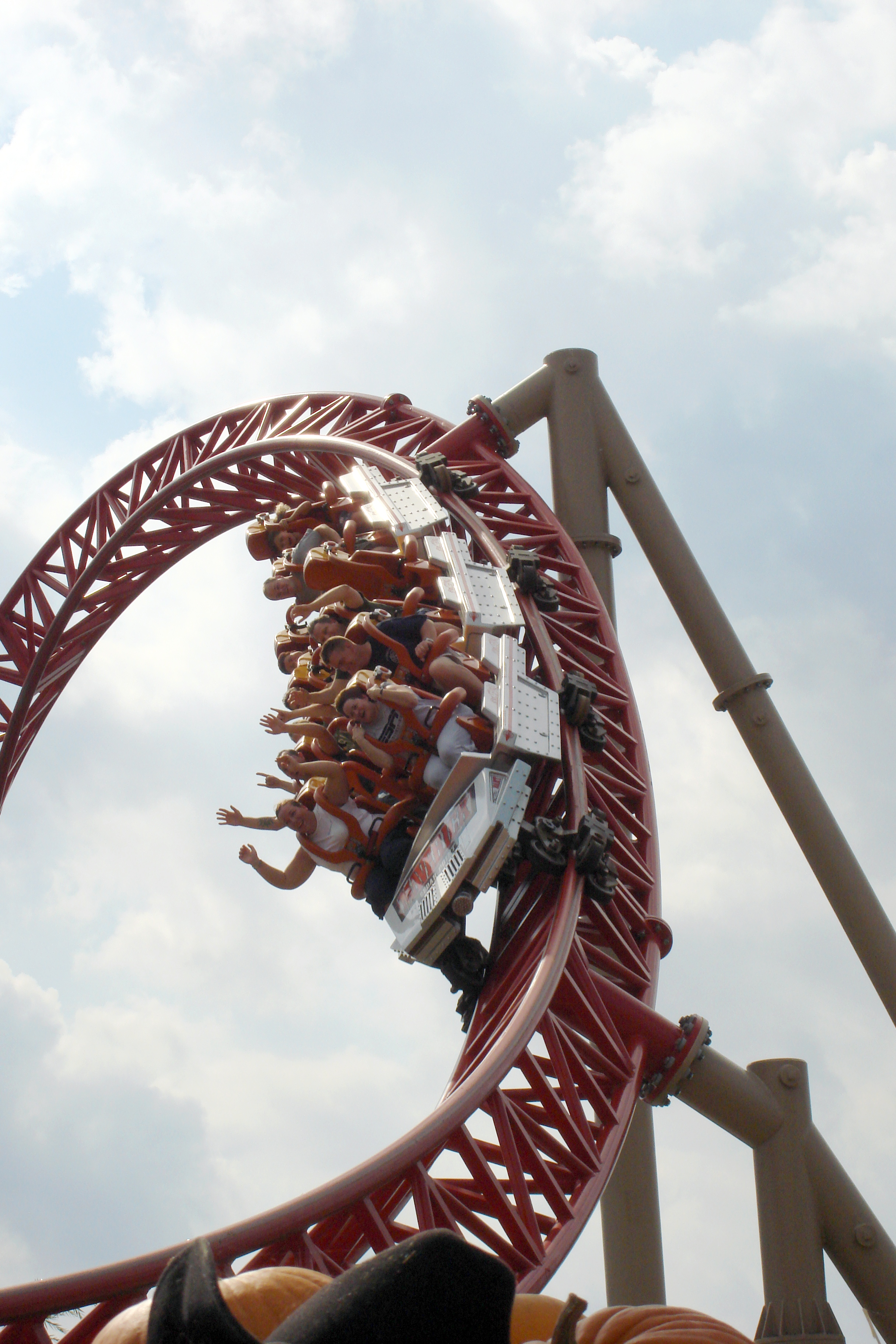 self taken image